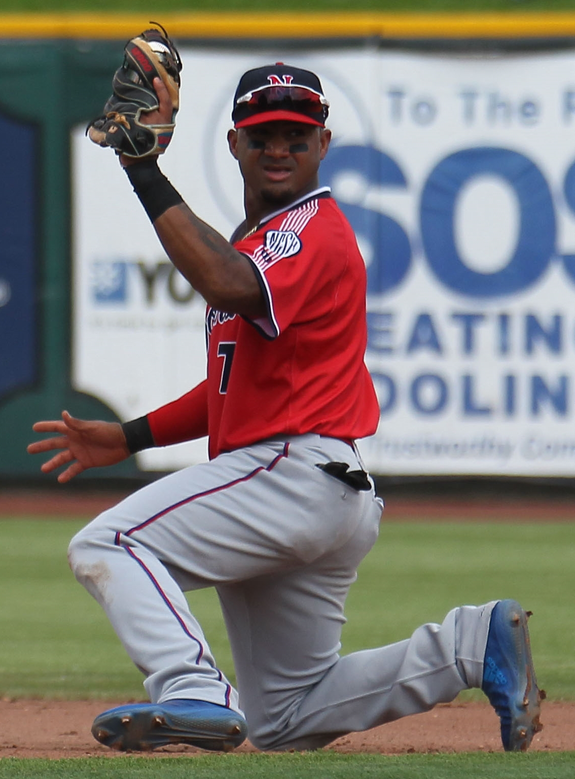 Minda Haas Kuhlmann USAGE INSTRUCTIONS: You are welcome to share or publish to your own site or social media account, but you MUST credit me, Minda Haas Kuhlmann. Twitter: @minda33. Instagram: minda.haas